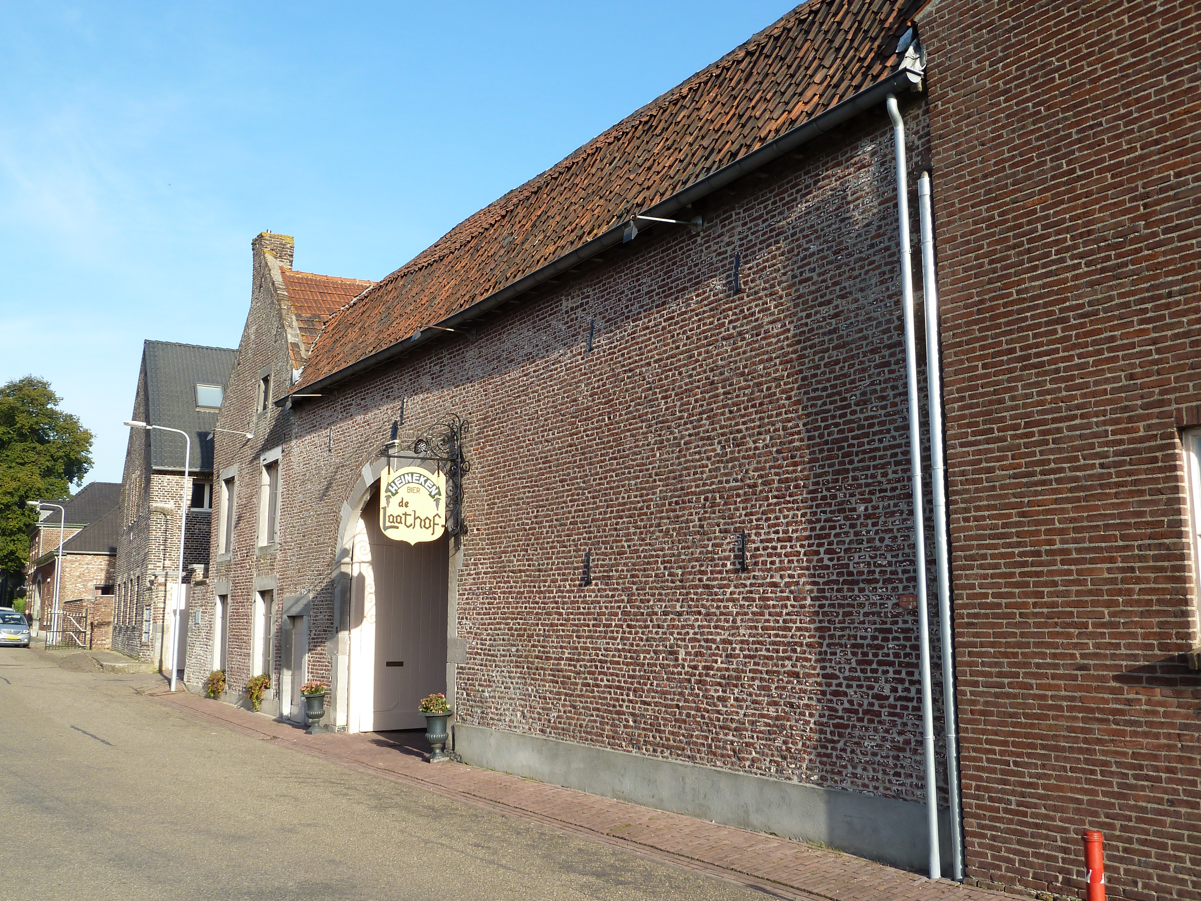 Langstraat 3, Mesch, Limburg, the Netherlands